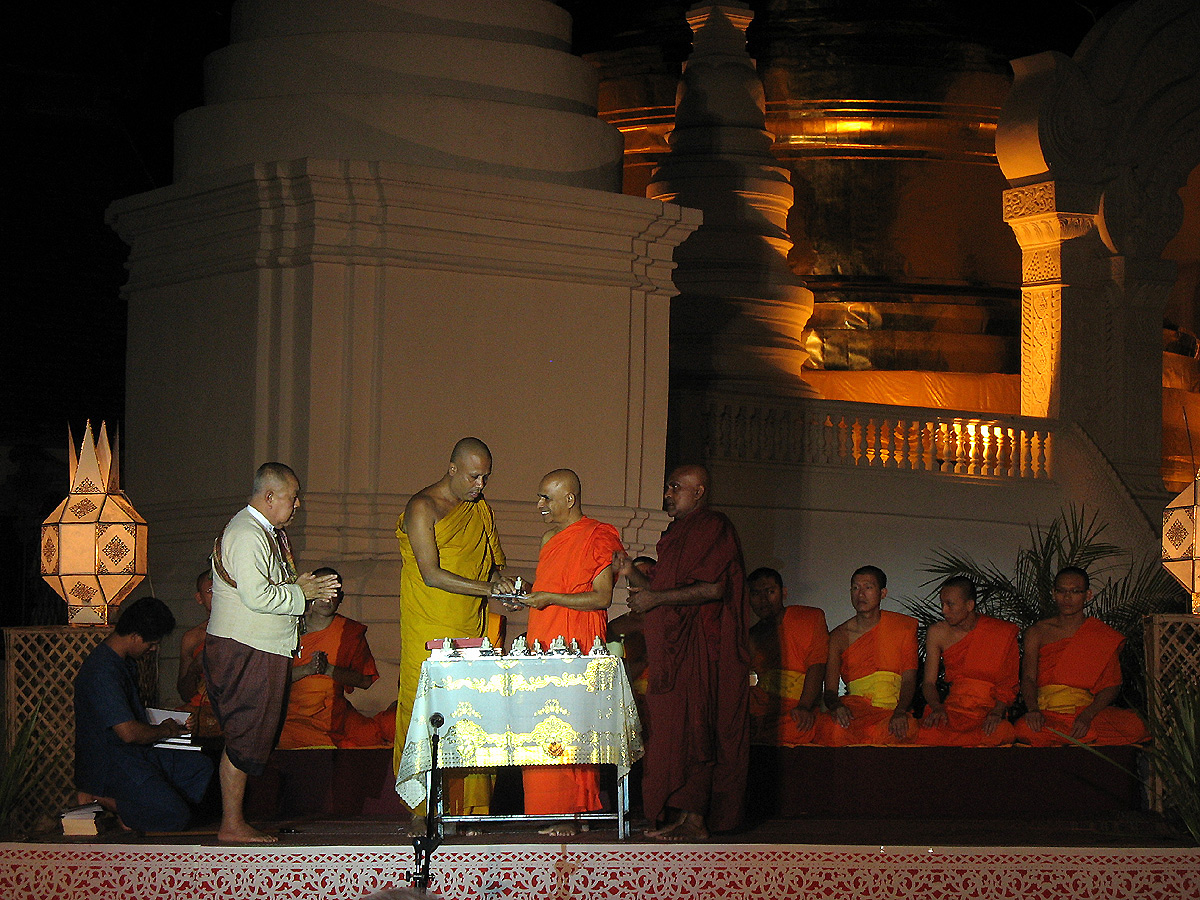 INEB Conference 2009 in Chiang Mai, Thailand. Monks from Sri Lanka present a gift to Ajahn Sulak Sivaraksa.